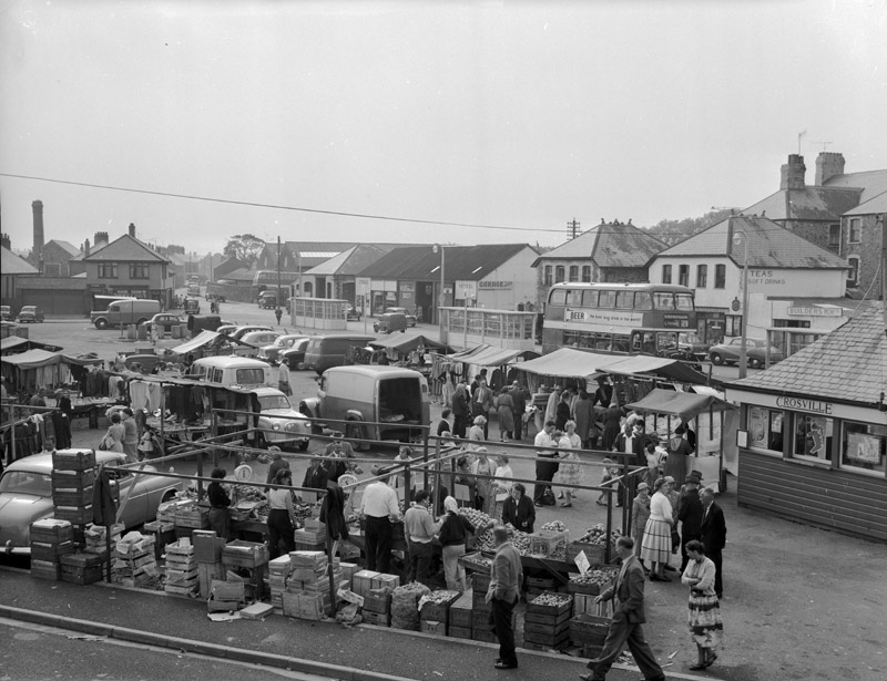 More information about the Geoff Charles Collection at the National Library of Wales. Geoff Charles' photographs also form part of the Europeana Libraries Project.